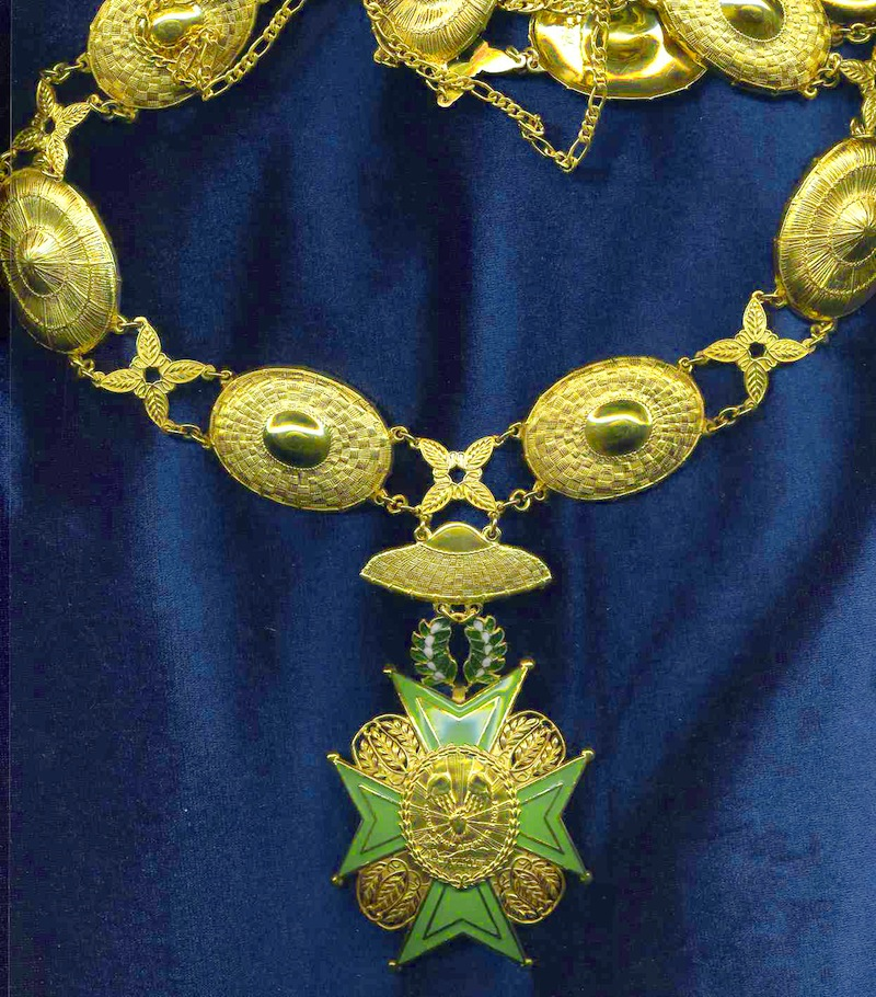 Philippine Civilian Honors: Order of the Golden Heart (Grand Collar) Tagalog: Orden ng Gintong Puso (Maringal na Kuwintas)